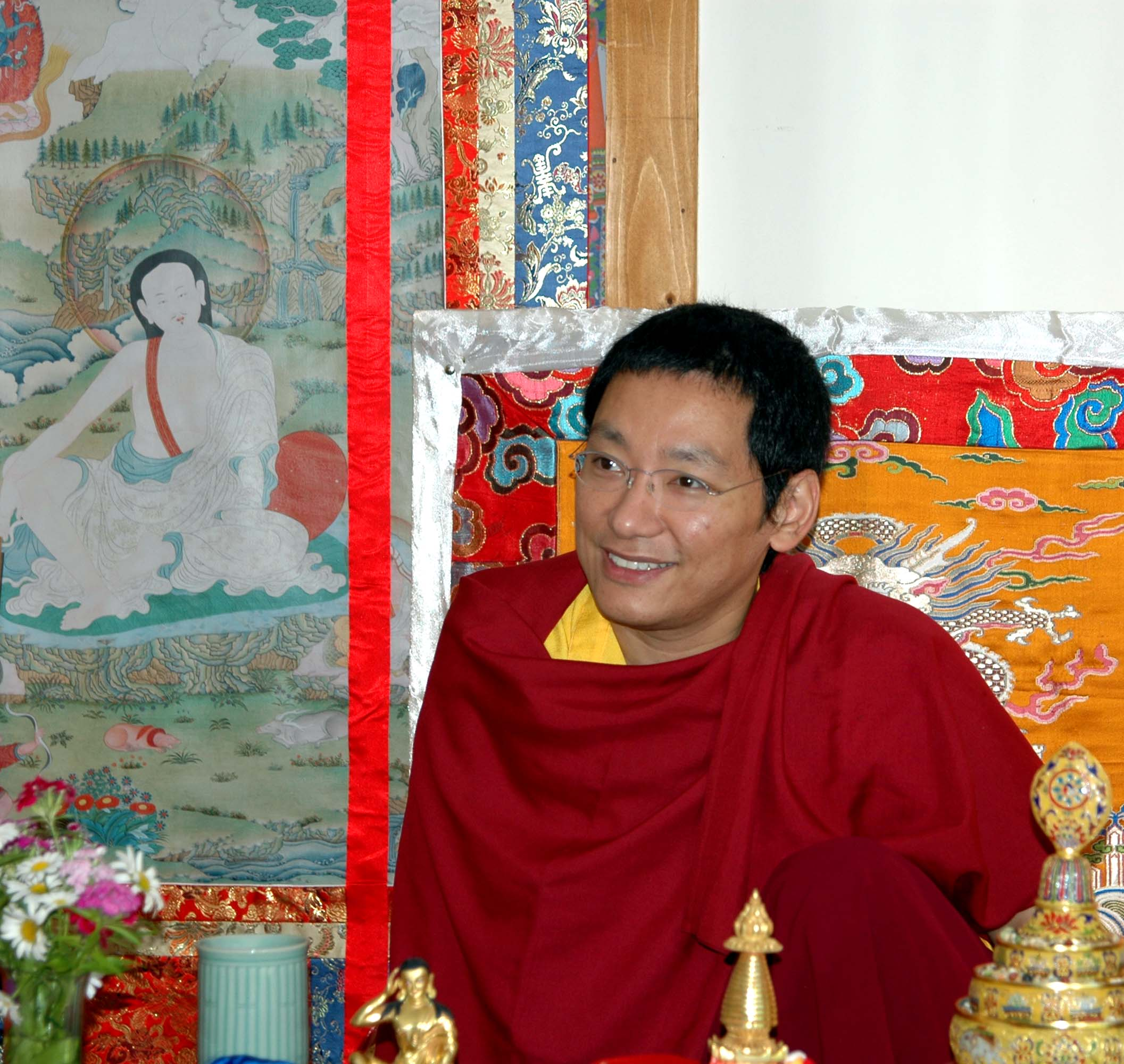 Trungram Gyaltrul Rinpoche teaching